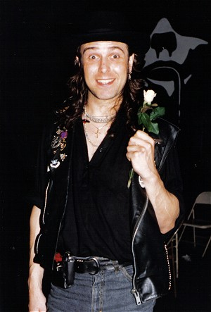 Subject: Mick Brown of The Mission Date: May, 1987 Place: Club Hell, Santa Clara, California, USA Photographer: Andwhatsnext Original 35mm photograph scanned Credit: Copyright (c) 1987 by Nancy J Price